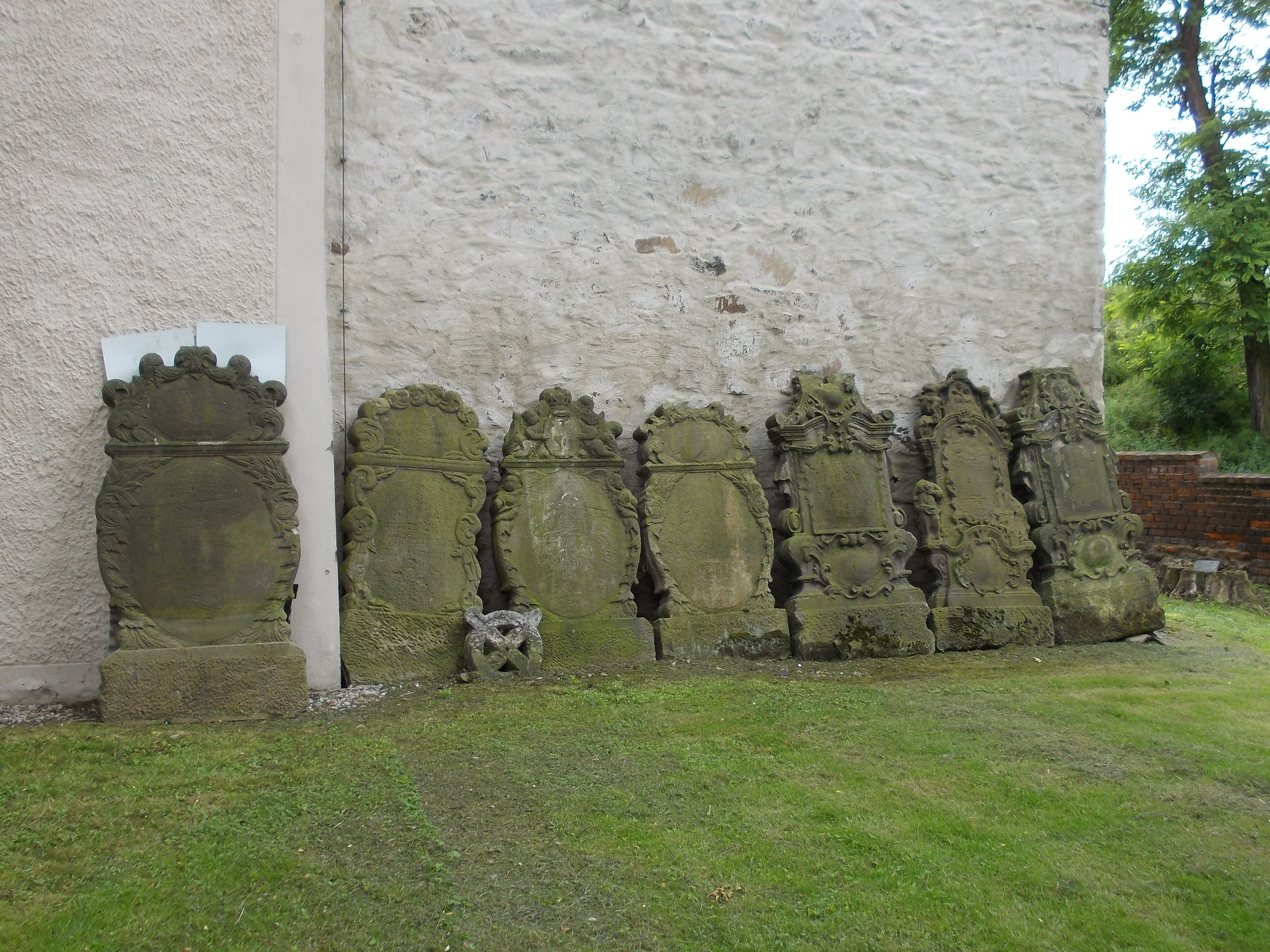 Old gravestones at Spören church (Zörbig, Anhalt-Bitterfeld district, Saxony-Anhalt)